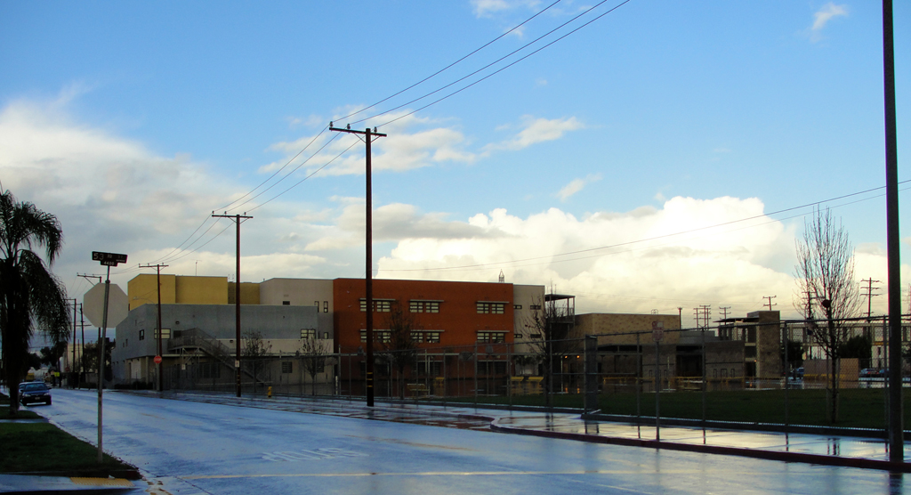 Maywood Elementary School in Maywood, CA